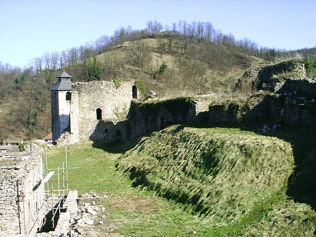 The town of Maglaj with a historical castle in central Bosnia and Herzegovina